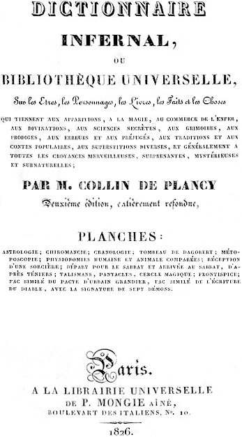 First Page of Collin de Plancy's Dictionnaire infernal